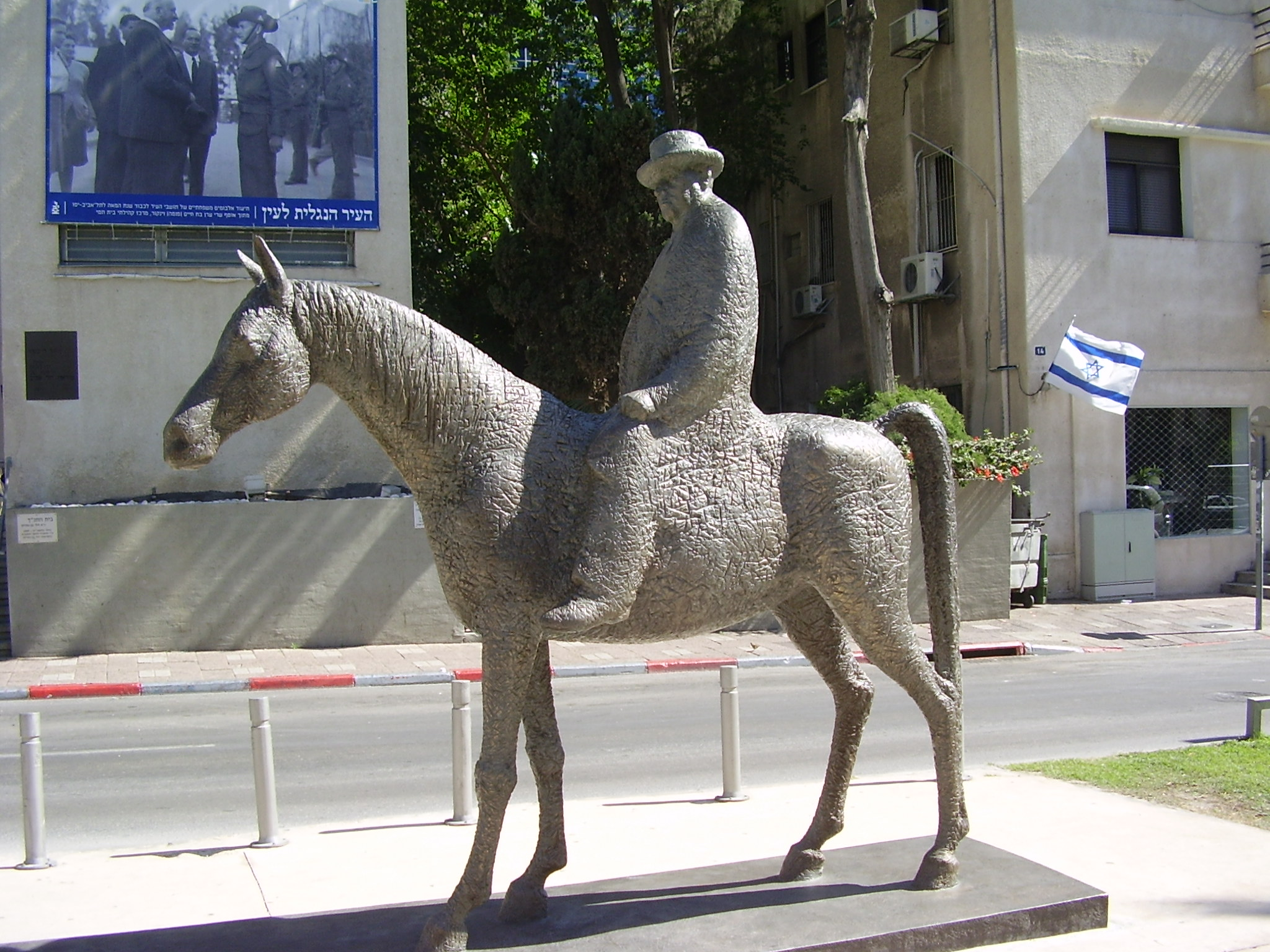 A statue of Meir Dizengoff (1861 - 1936), first mayor of Tel Aviv, located on Rothschild Boulevard.